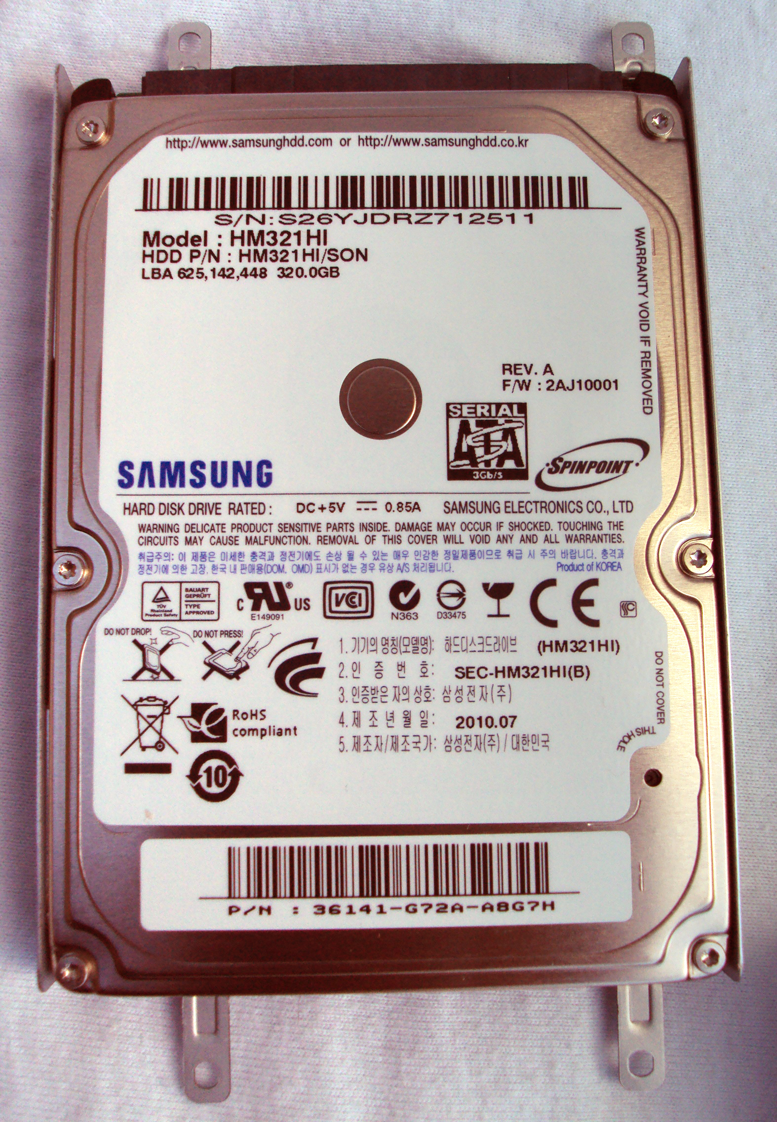 2.5" SATA HDD from a Sony VAIO laptop